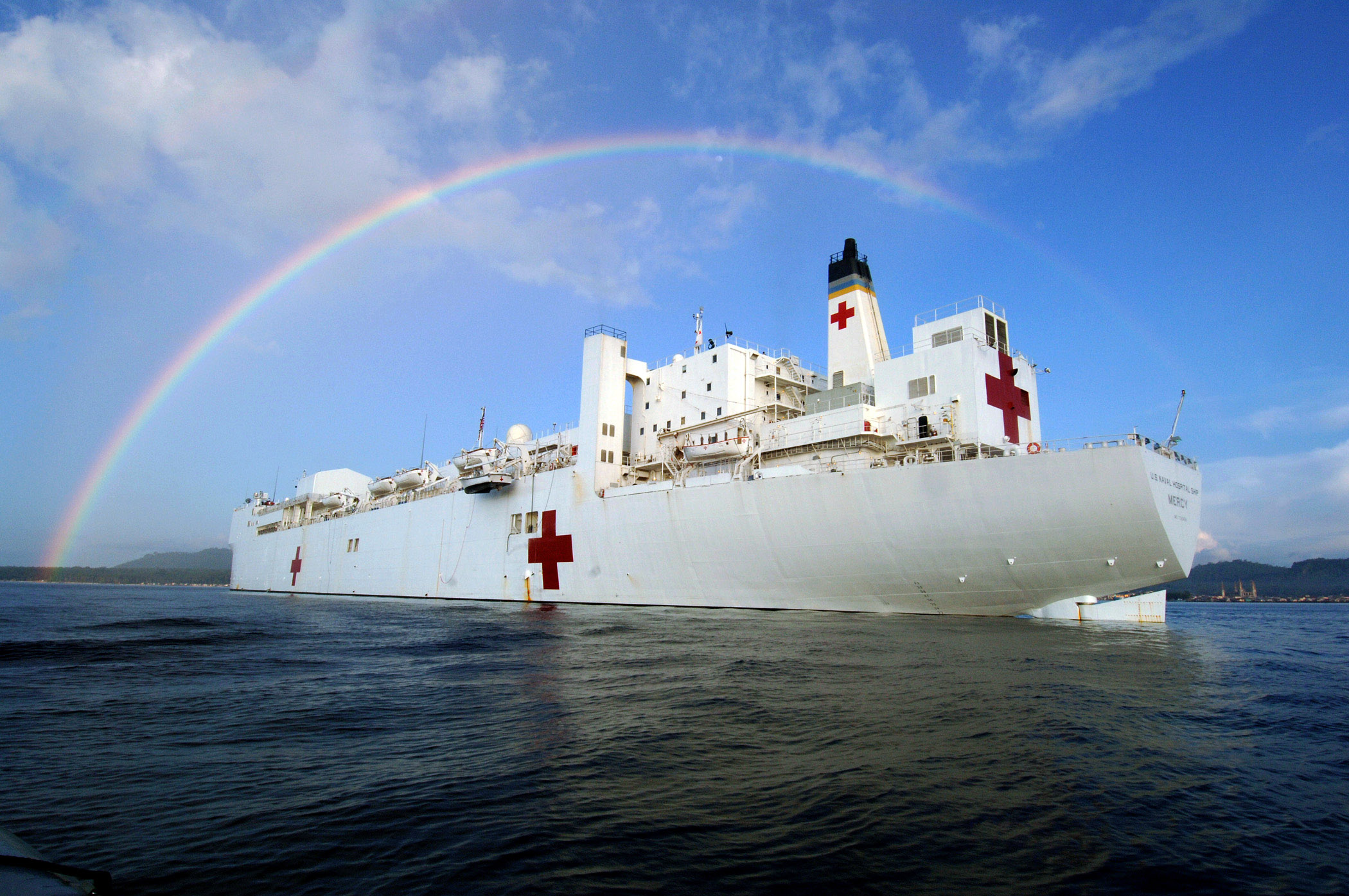 Jolo, Philippines (June 8, 2006) - The U.S. Military Sealift Command (MSC) Hospital ship USNS Mercy (T-AH 19), anchored off of the coast of Jolo City. Since its arrival, Mercy's staff has assisted thousands of local citizens with medical and dental care. During its stay, this care was provided by a portion of Mercy's staff working side by side with their Filipino counterparts at several medical centers in the city, as well as patients being given care on the ship itself. Mercy is on a five-month humanitarian deployment to South Asia, Southeast Asia, and the Pacific Islands. U.S. Navy photo by Chief Photographer's Mate Edward G. Martens (RELEASED)